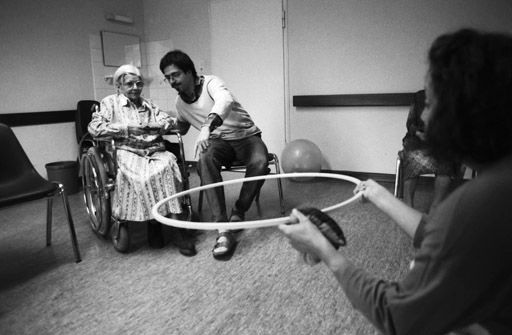 Resident of a nursing home in Munich (Germany)